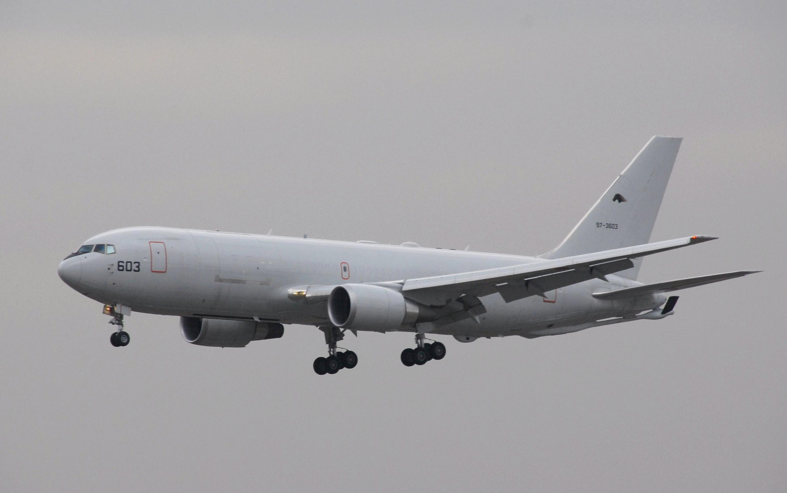 The KC-767J, 404th Tactical Airlift Tanker Squadron, 1st Tactical Airlift Group, Air Support Command.